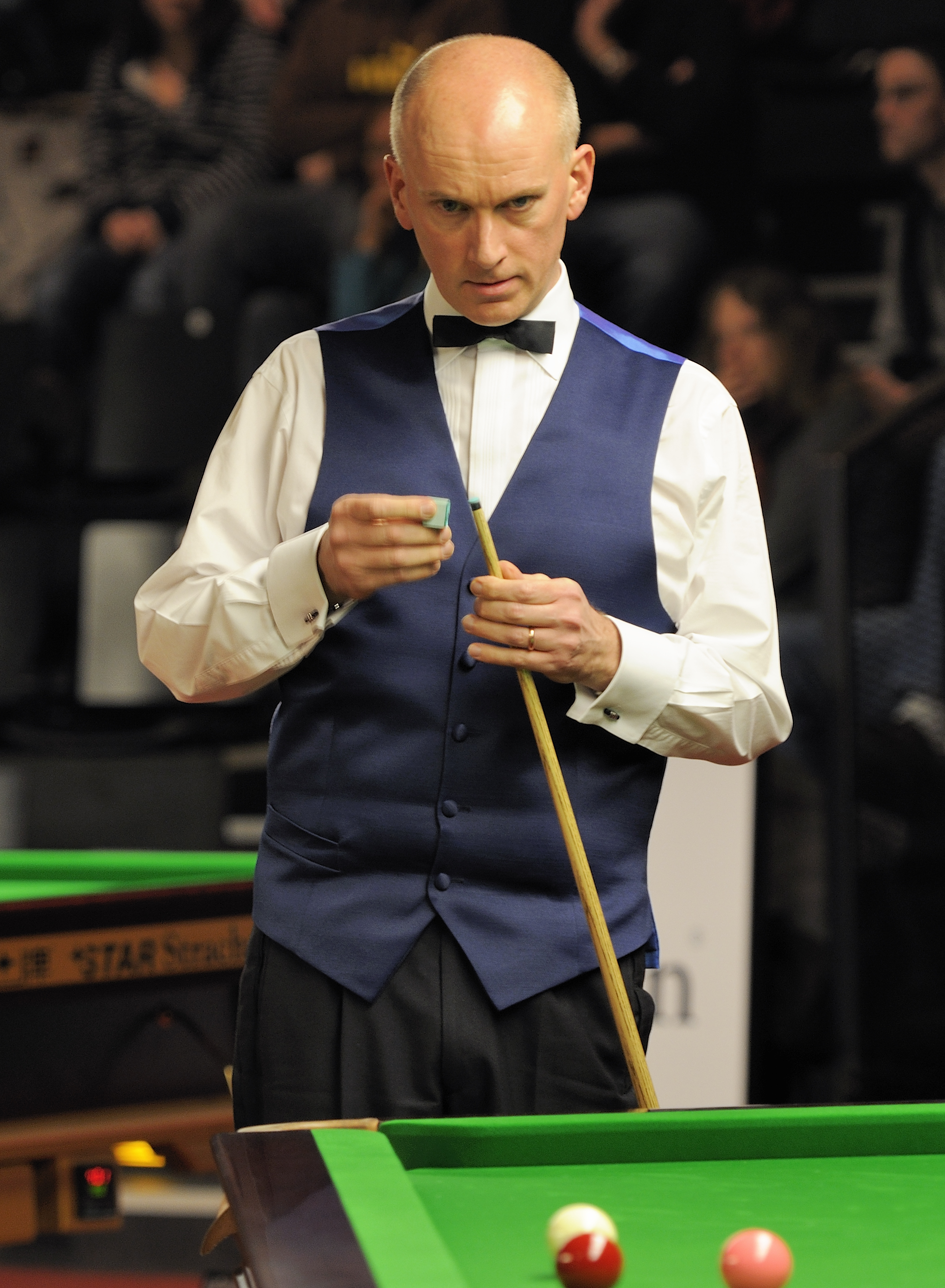 Picture taken in Berlin during the Snooker German Masters in 2014. Peter Ebdon.